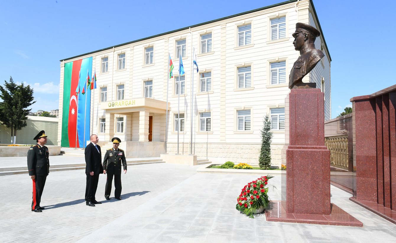 Ilham Aliyev viewed conditions created at newly-reconstructed Military Lyceum named after Jamshid Nakhchivanski